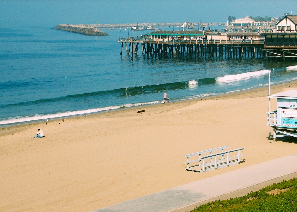 Redondo Beach with Pier (on the right)